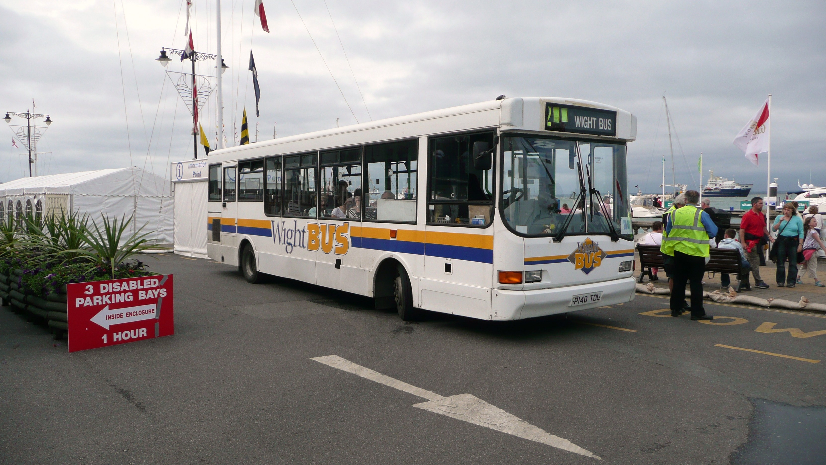 This is a photo showing the Wightbus Sailbus, run on Cowes Week as a park and ride service. The bus, 5846 (P140 TDL), is on the parade in the town.